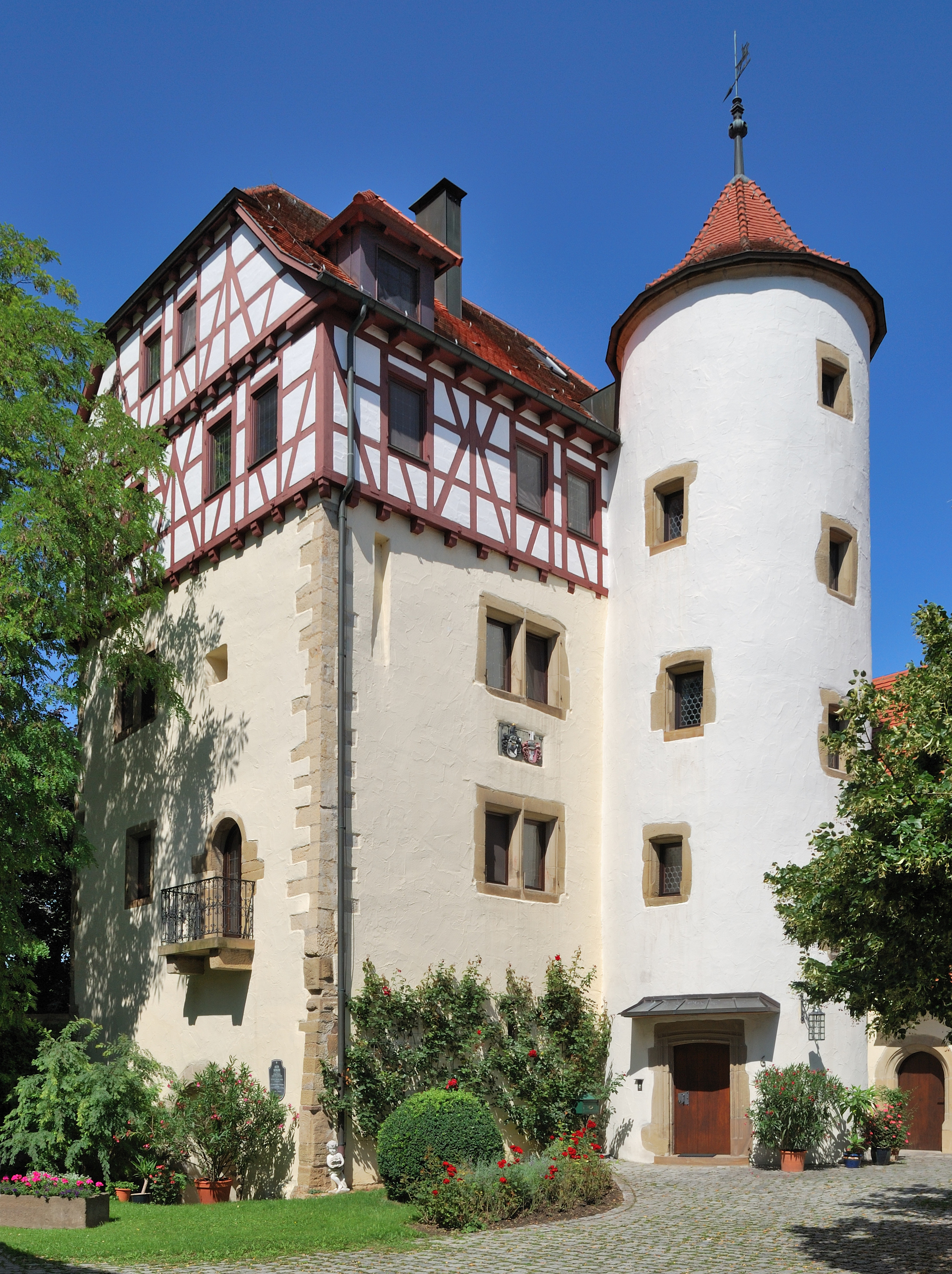 The Old Castle in Münchingen in Baden-Württemberg in Germany. The castle was build in 1558 at the place of an older castle, first mentionned in 1304. The estate is today in private hands. See coat of arms.